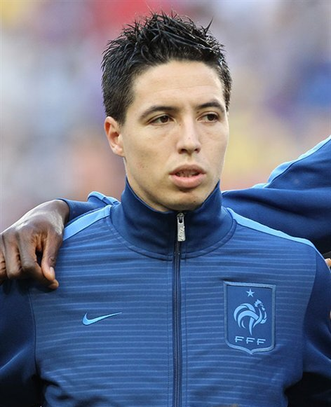 Samir Nasri before UEFA Euro 2012 match between France and England played in Donetsk at Donbas Arena. Final result was 1:1 (Nasri, Lescott).